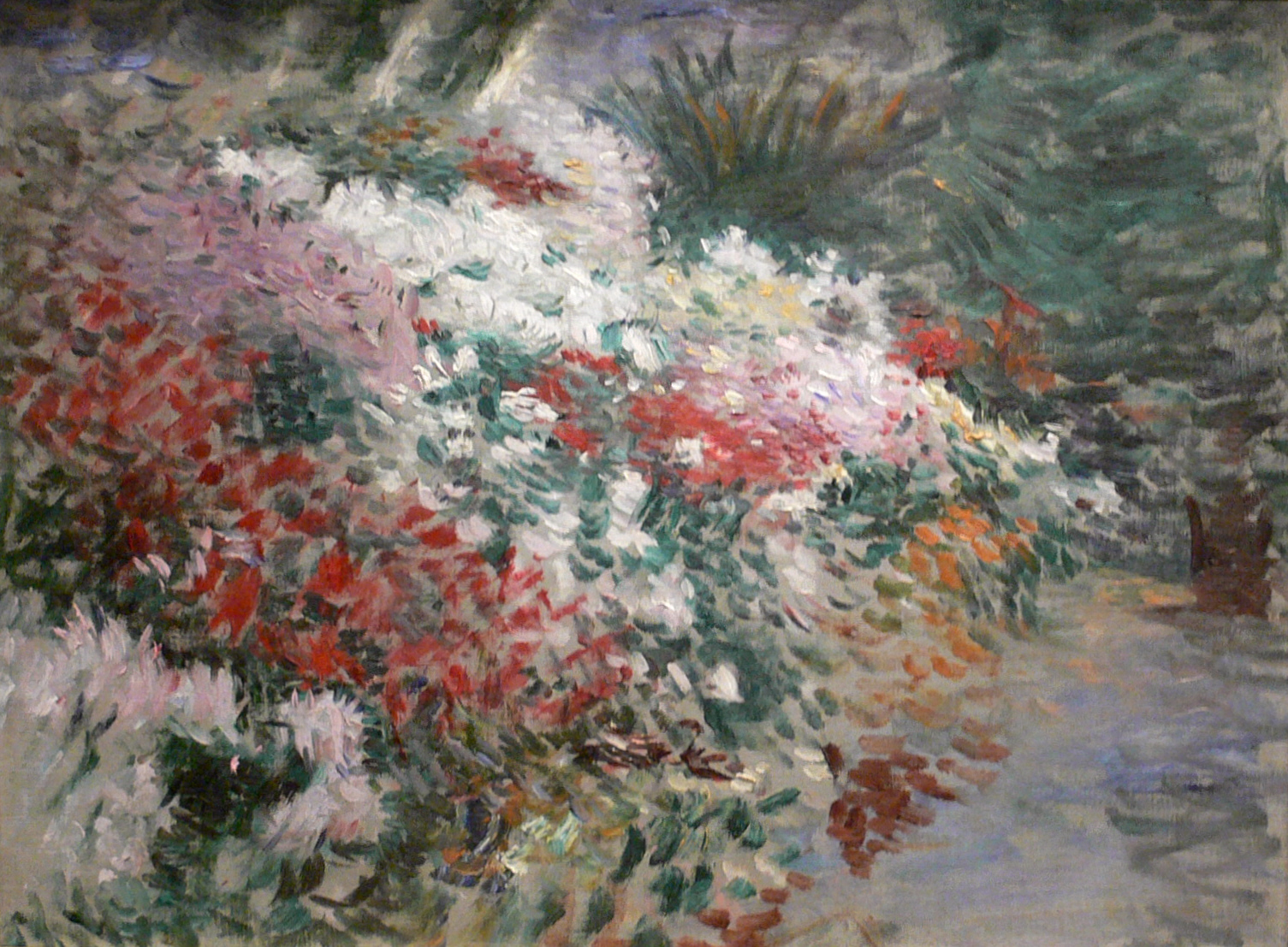 In the Greenhouse